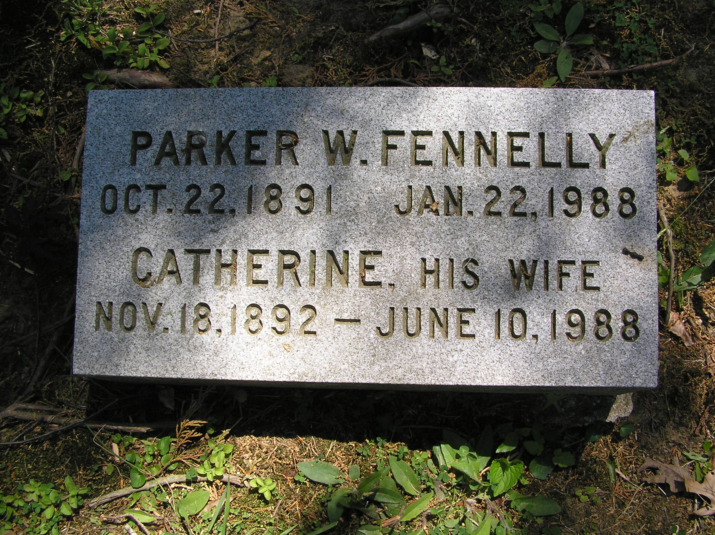 The gravesite of Parker W. Fennelly in Sleepy Hollow Cemetery